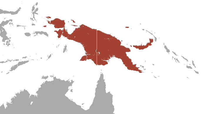 Common Spiny Bandicoot (Echymipera kalubu) range